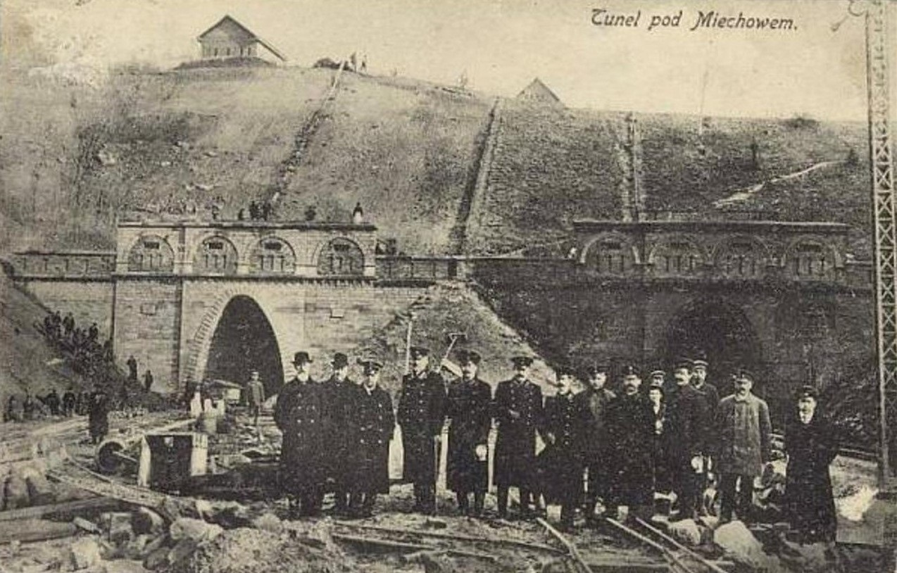 Tunnel near Miechow, historic photography